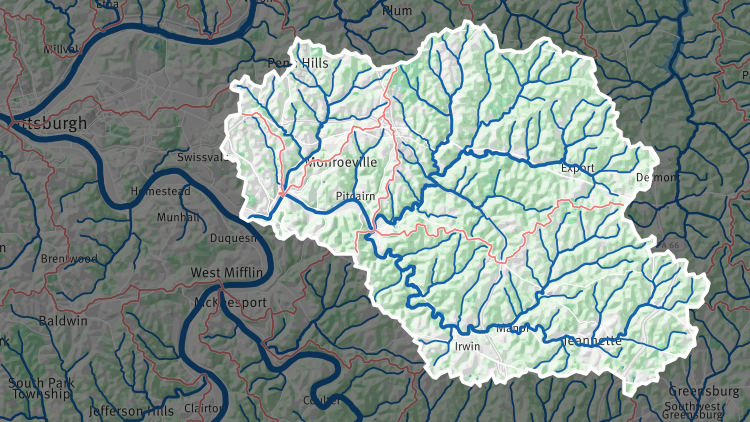 The Turtle Creek Watershed in western Pennsylvania